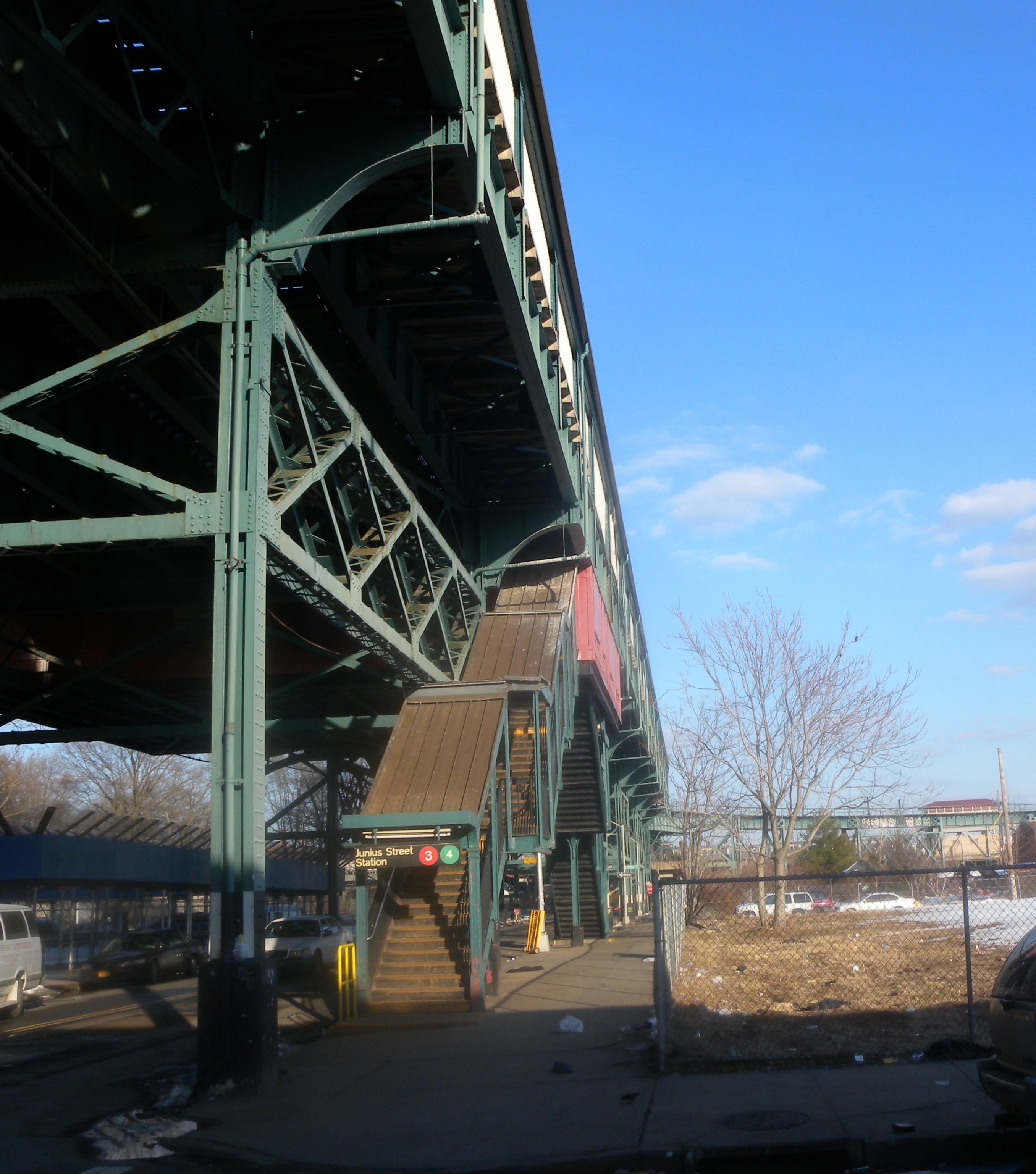 Looking east at southwest stair of Junius St station on a sunny afternoon. ZIP 11212.